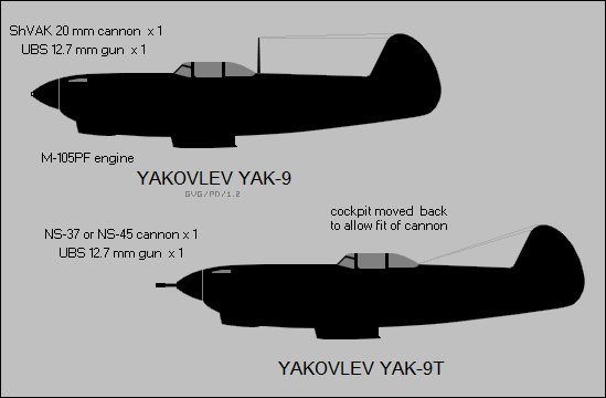 Side-view silhouettes of Yakovlev Yak-9 variants